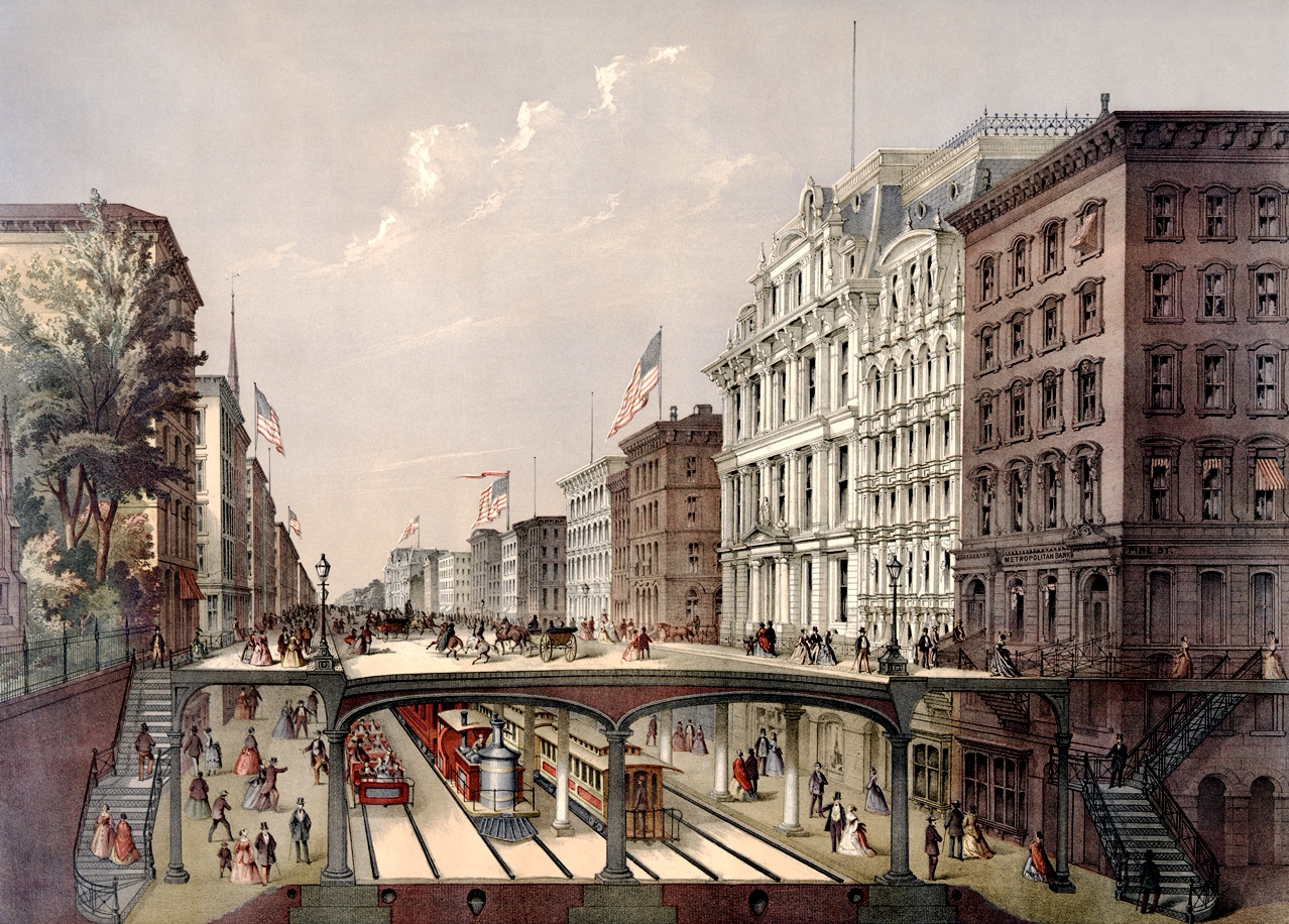 "Proposed arcade railway--Under Broadway, view near Wall Street", a circa 1868 lithograph for a proposal for a elevated railway which, although it passed the legislature several times, was vetoed by the governor, and eventually was replaced by the current New York subway system.. for a history of this project. Publication notes Created by Ferd. Mayer & Sons, lithographers and Melville C. Smith, projector, both of New York Restoration notes A fairly lengthy but (overall) straightforward restoration. Some scratches and other damage, a rather awkward border, staining, and such. I think this should be right, but do note that I've seen examples of this that have a very reddish, sunset tone in the sky. I suppose that's possible, but the scan seemed to indicate these colours as much more likely. Of course, it may be there was more than one state of this printing. Anyway, as I said, fairly straightforwards; removed dust, dirt, some minor printing errors, and tried to get the colours to what they would've been when new. Think I did fairly well. Copyright status